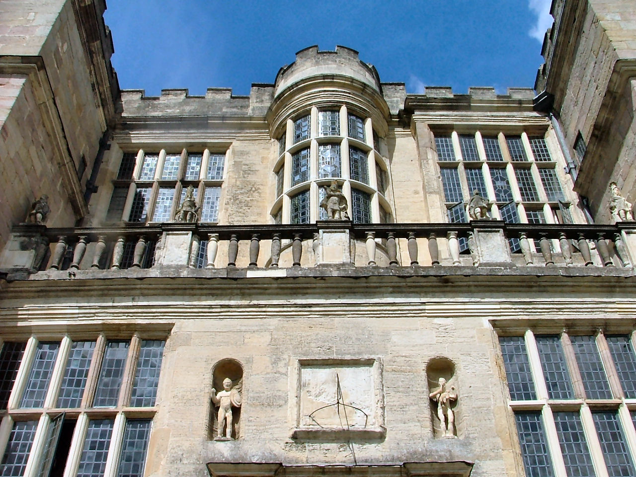 Balcony of Fountains Hall